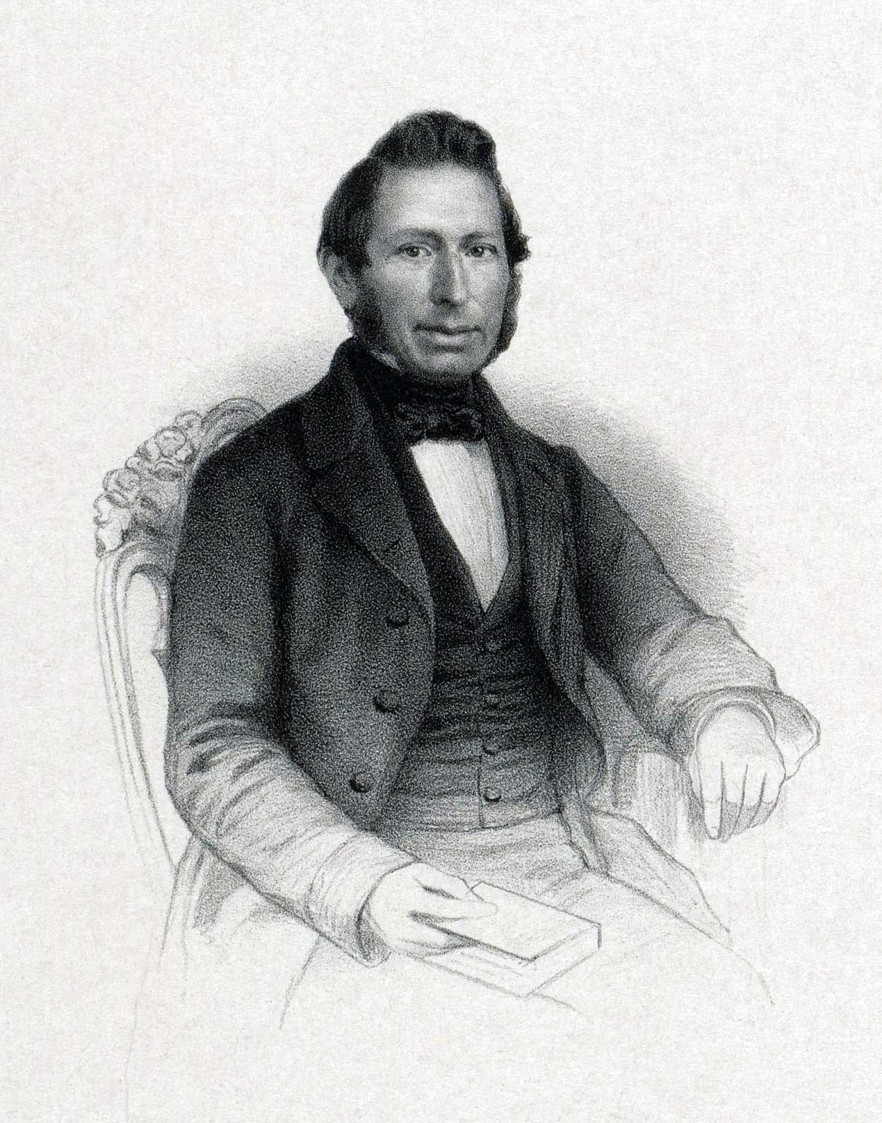 Johan de Wal (1816-1892) Dutch criminal lawyer and legal historian